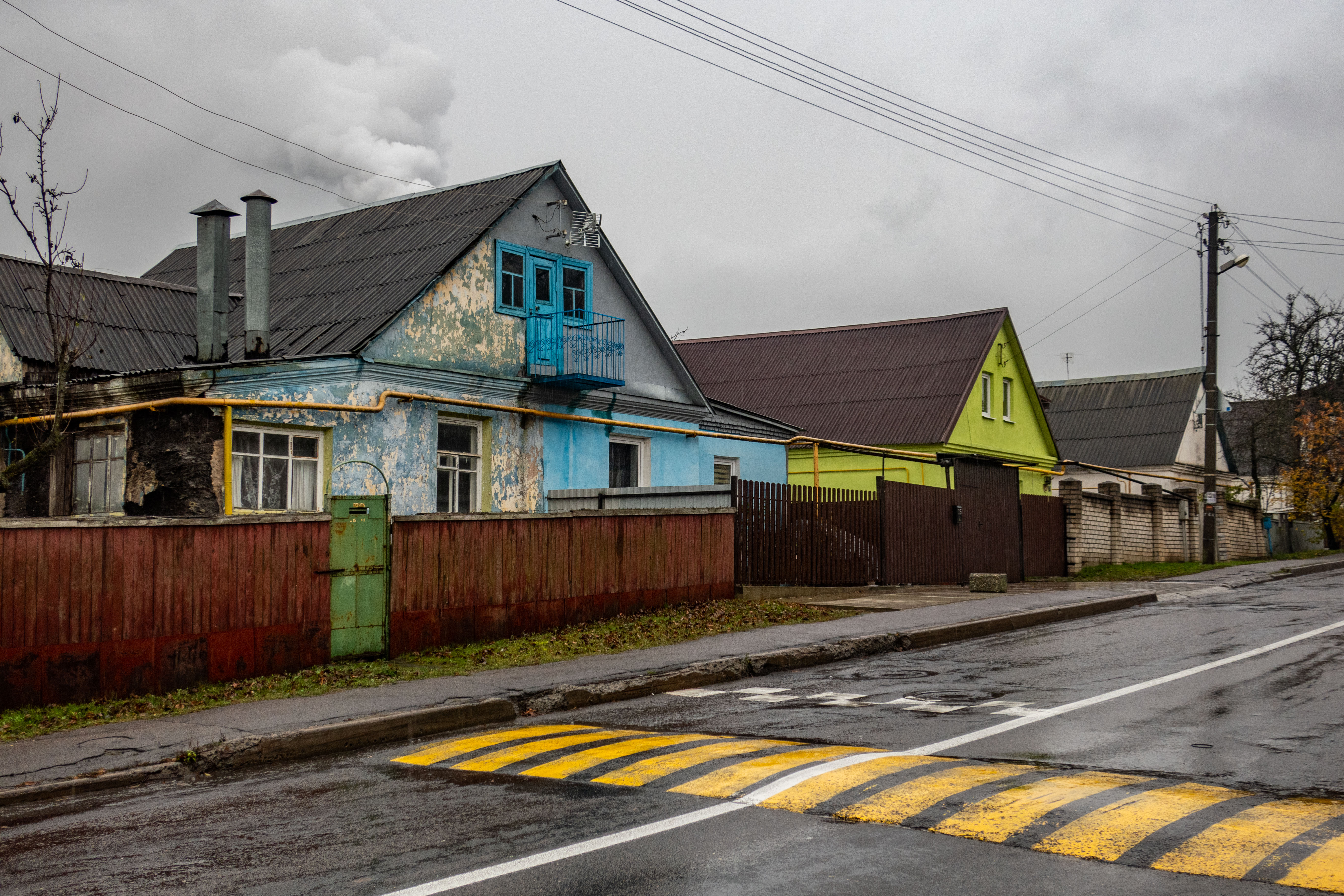 Pierachodnaja street. Minsk, Belarus